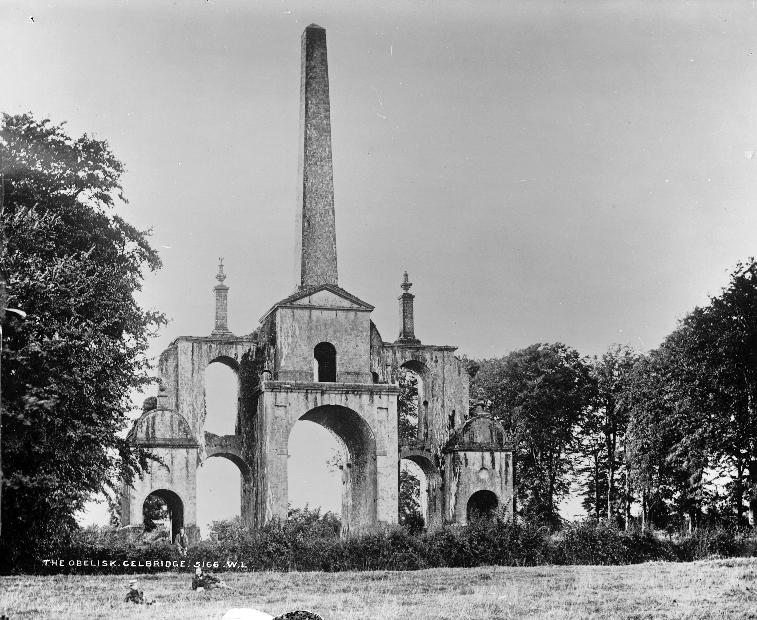 Never even knew of the existence of this very impressive structure at Celbridge in Co. Kildare. Did you? Where exactly was it and is it still there? Who built it and why? Photographer: Almost certainly Robert French of Lawrence Photographic Studios, Dublin Date: Circa 1900?? NLI Ref.: L_ROY_05166